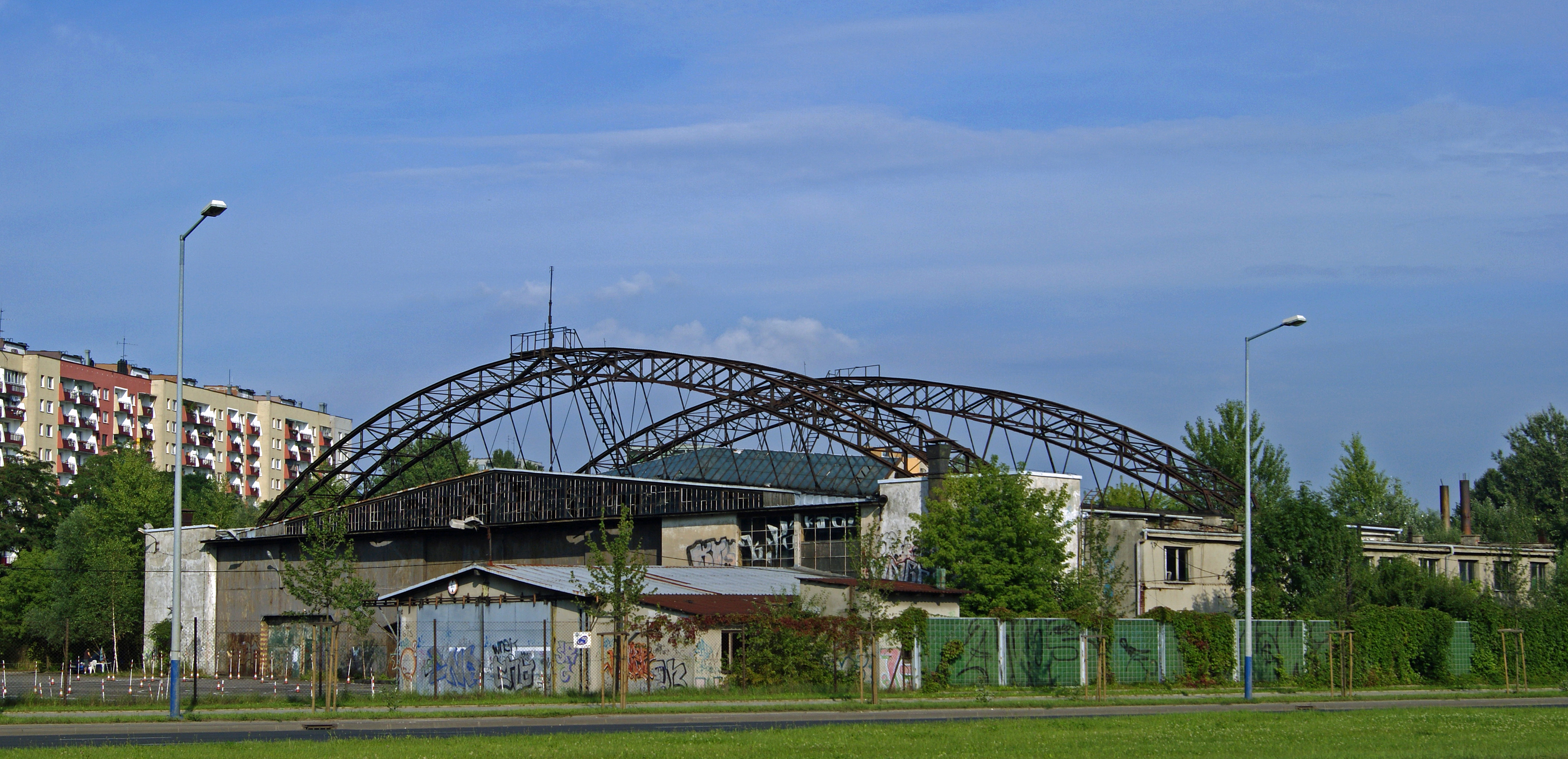 Old Airport Krakow-Rakowice-Czyzyny hangar, 41 Medweckiego street, Nowa Huta, Kraków, Poland